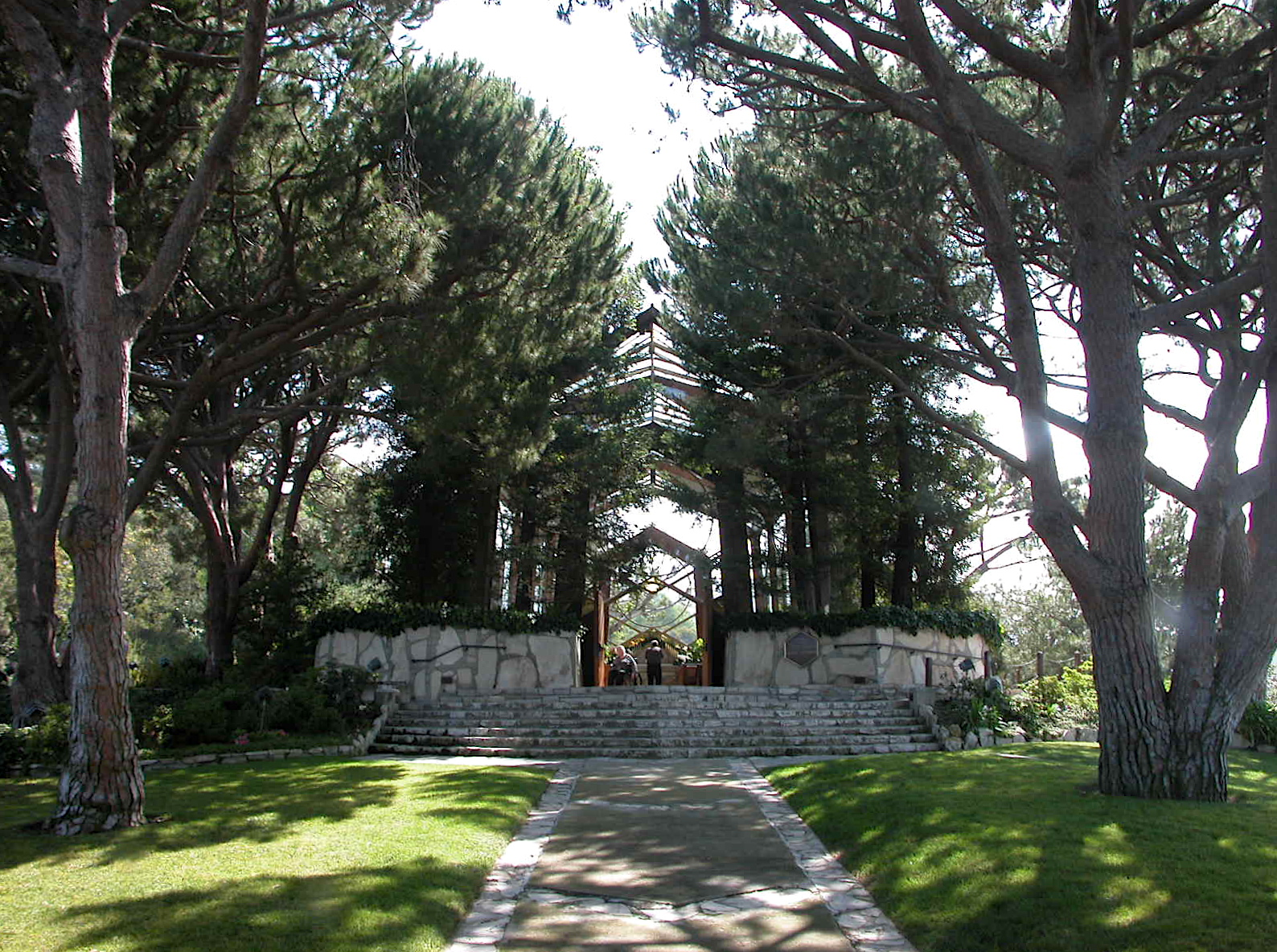 Wayfarers Chapel